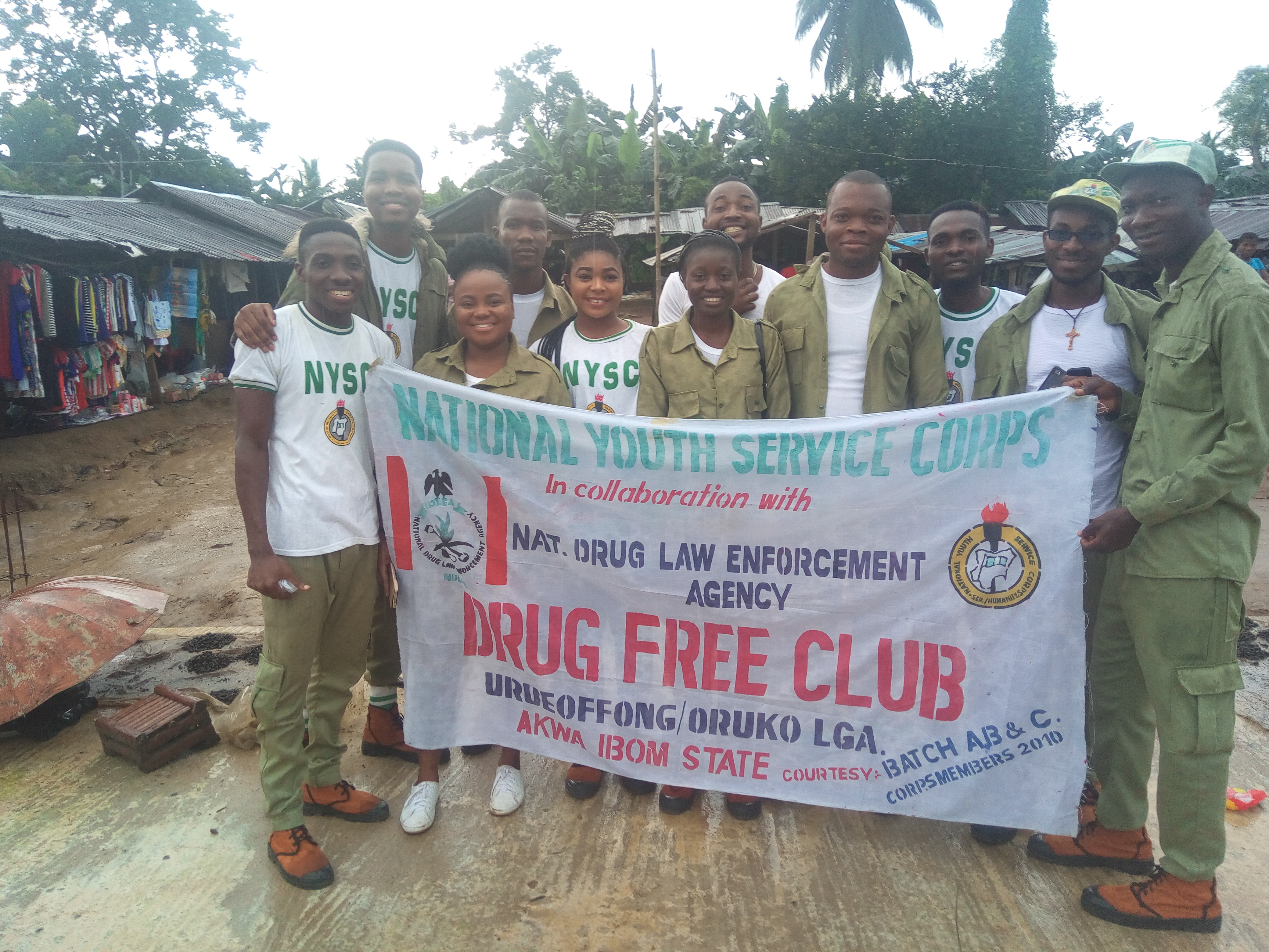 This is an image with the theme "Play" from: Nigeria